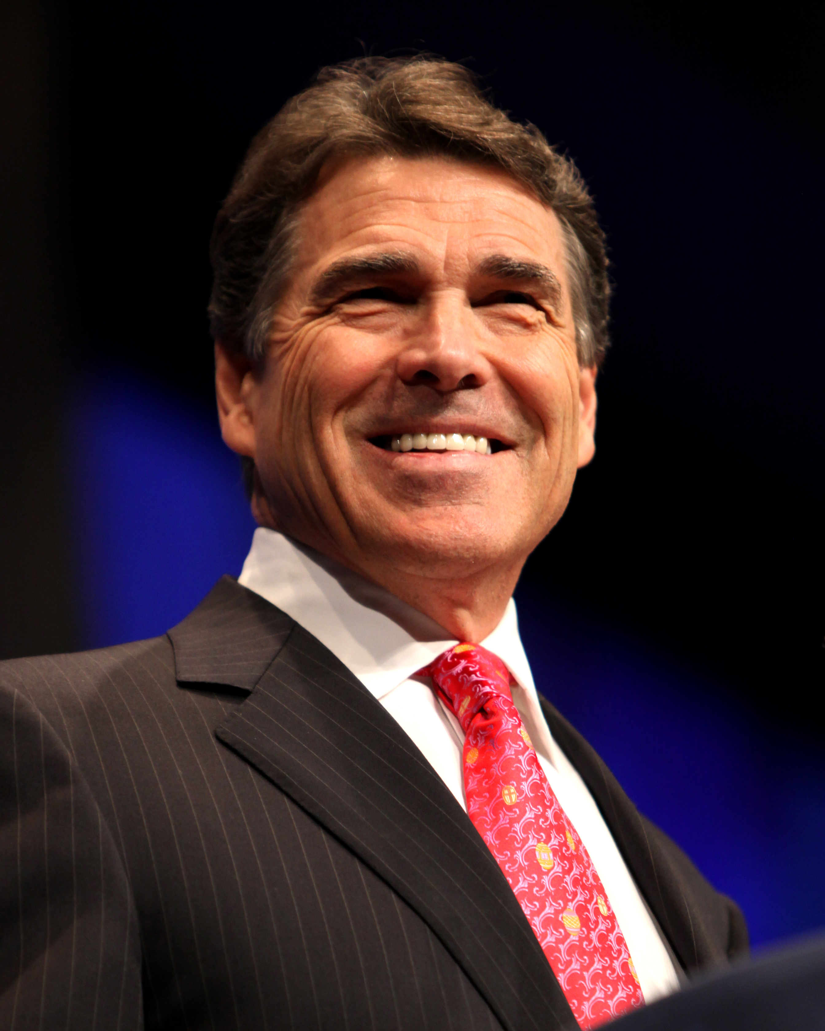 Rick Perry speaking at CPAC in Washington D.C. on February 9, 2012.